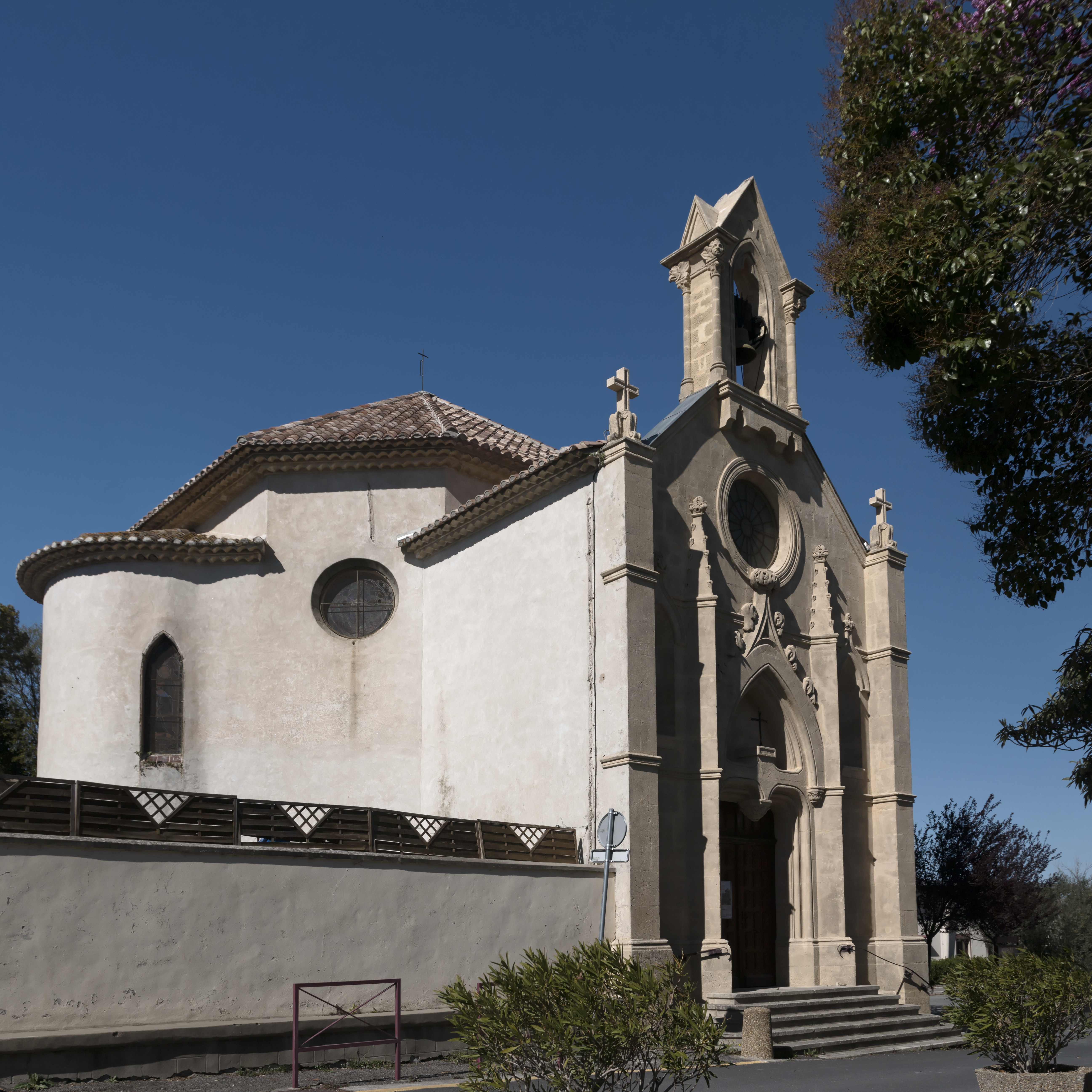 Christian church XIXth. century.